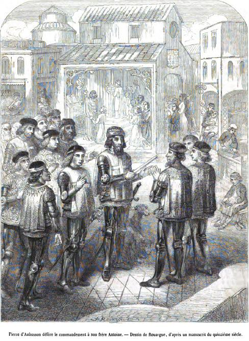 Pierre d'Aubusson (1423-1503), 40th grand master of the Military Hospitallier Order of St. John of Jerusalem (1476), cardinal (1489).